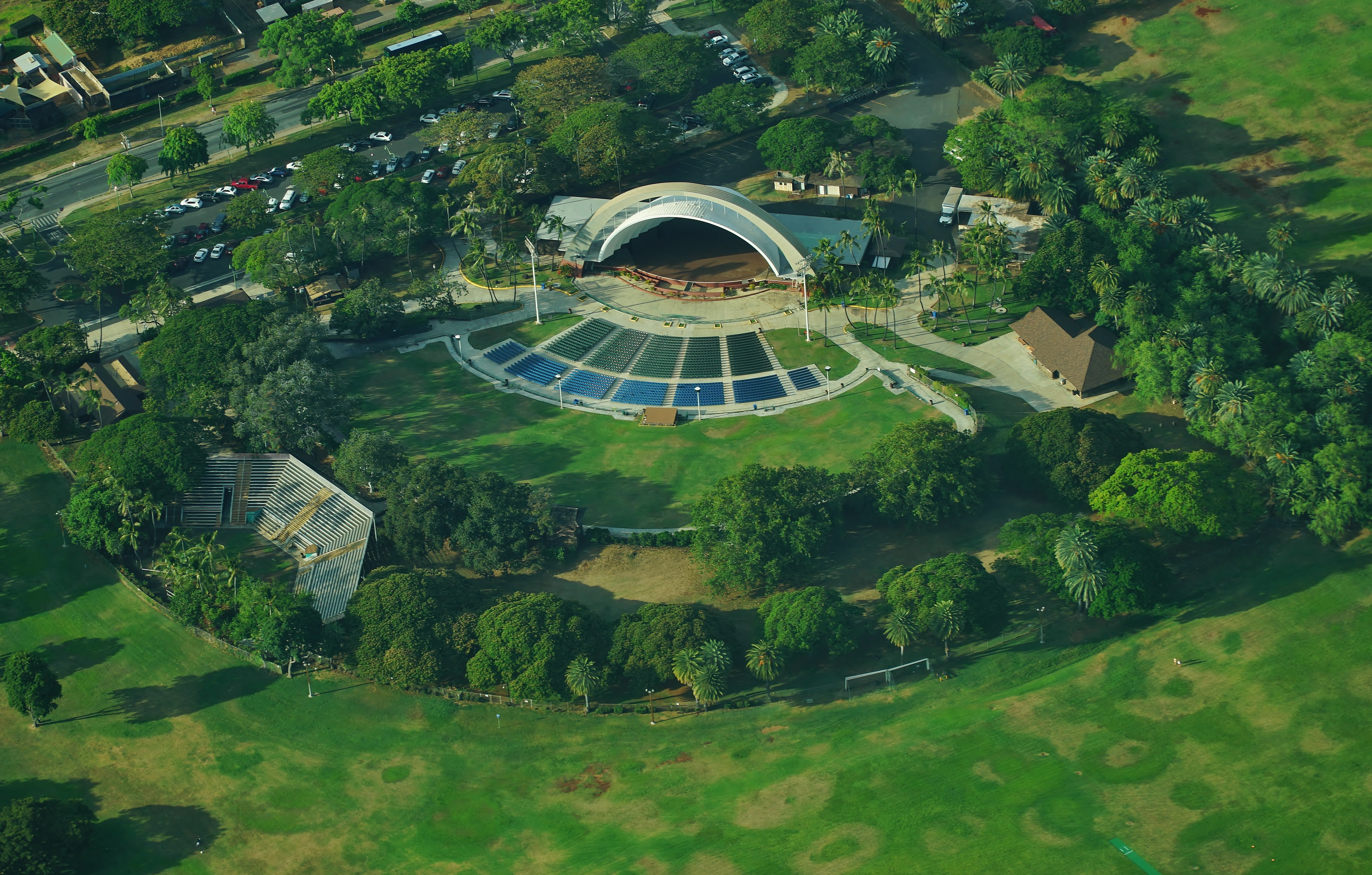 Aerial view of The Waikiki Shell is a venue for outdoor concerts and other large gatherings in Waikiki area of Honolulu, Hawaii right next to Diamond Head. Built in 1956 and has seating for 8,000.